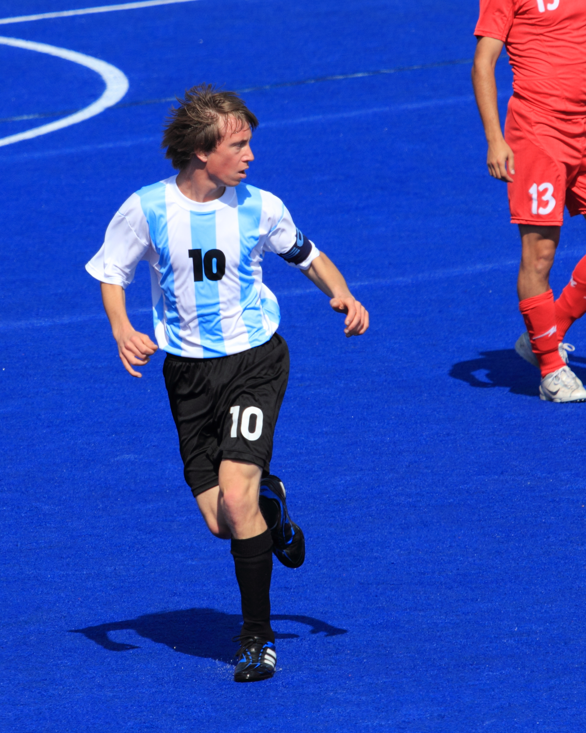 Paralympian Argentina Striker Rodrigo Lugrin wears his number 10 shirt with pride in Argentina's London 2012 Paralympic 7-a-side football match against Iran. Iran were eventual victors with the score finishing 8-1.